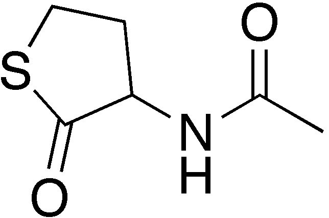 chemical structure of citiolone